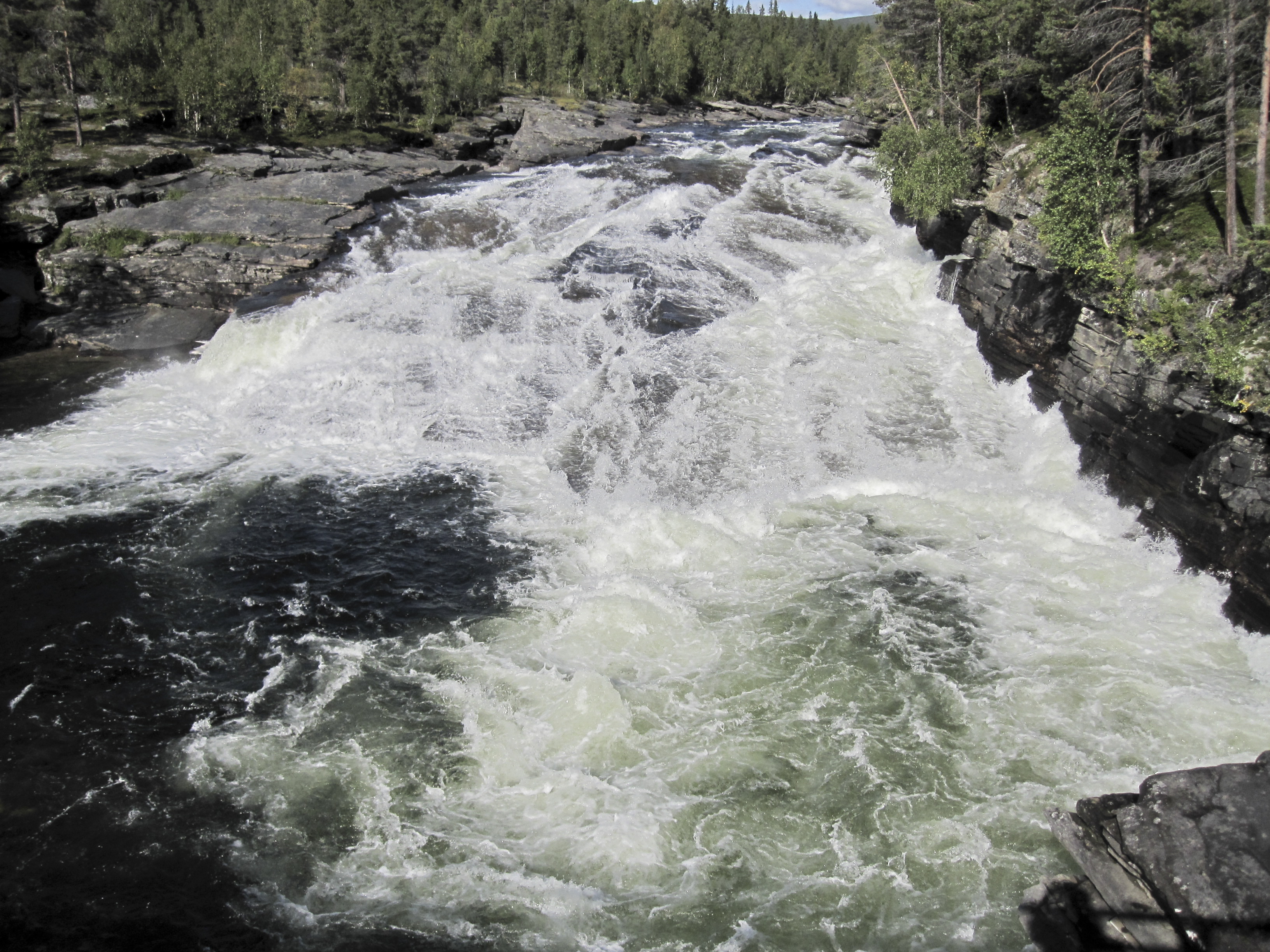 Vindelåforsen at Ammarnäs, Sorsele, Sweden.